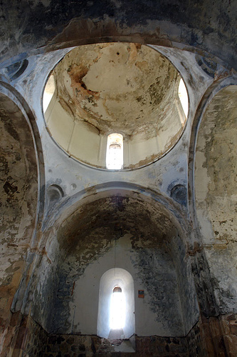 Doliskana in Tao-Klarjeti